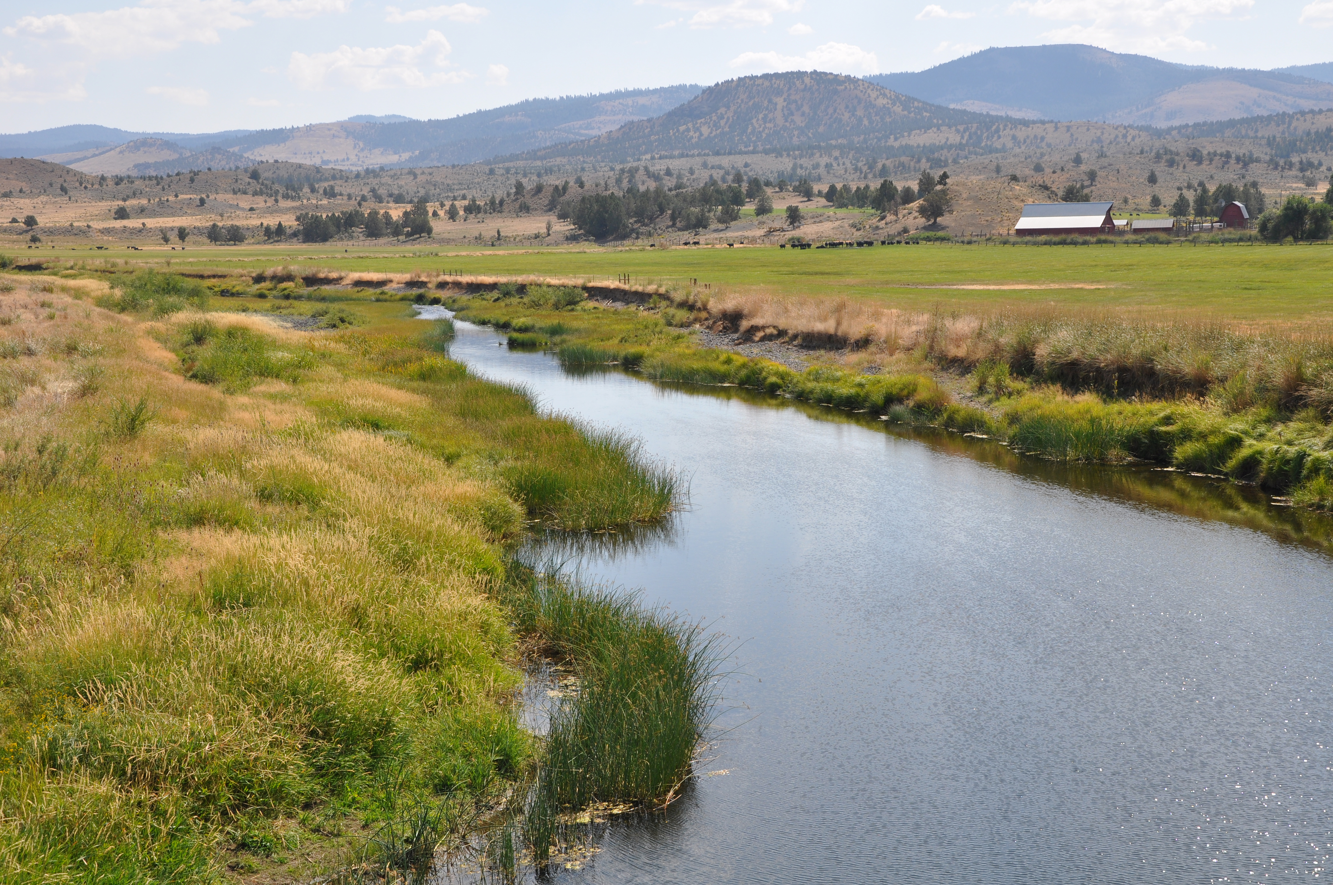 Crooked River in the U.S. state of Oregon. View is upstream east of Post near the river's source (the confluence of the South Fork Crooked River and Beaver Creek).